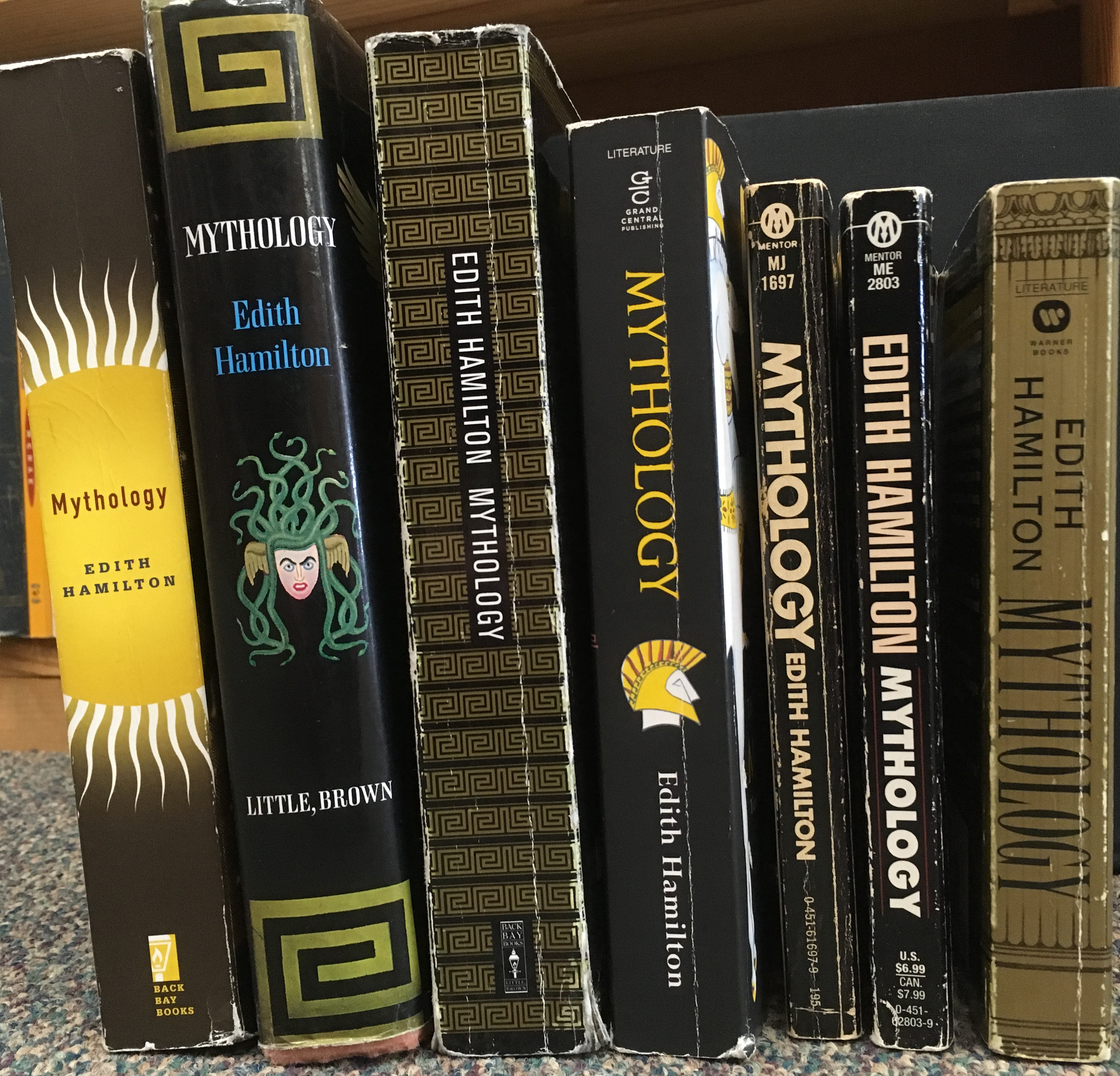 Hamilton's book has been reprinted in a variety of editions